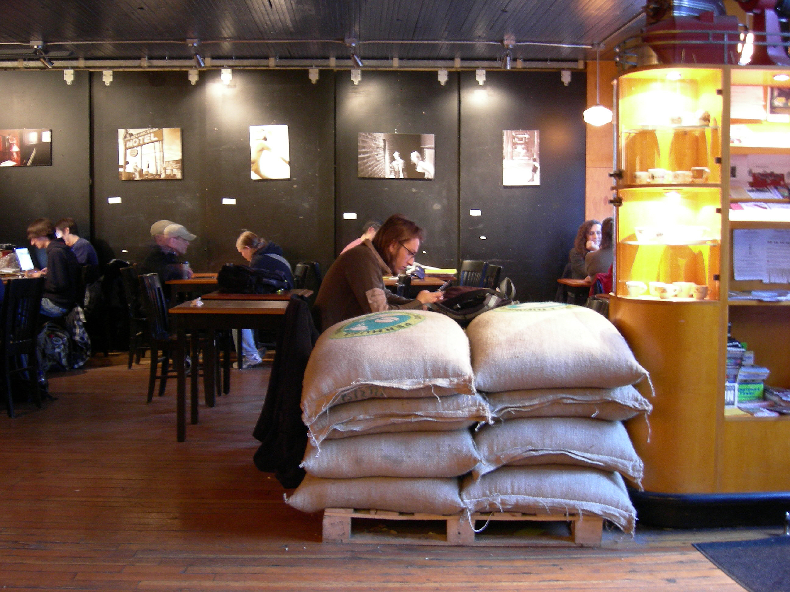 Café Vita (formerly Café Paradiso), coffeehouse and roaster, Pine Street, Capitol Hill, Seattle, Washington. Note the large bags of unroasted coffee beans.